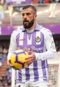 Real Valladolid - C. D. Leganés, 14th fixture of the 2018-19 La Liga, December 1, 2018.